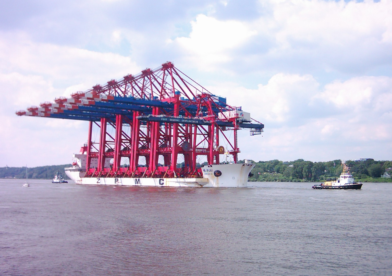 Transport of five gantry cranes for Eurogate Container-Terminal in Hamburg. Elbe, Finkenwerder, Germany. Information about Zhen Hua 20 may be found at IMO 7826180.A ship can change name and flag state through time, but the IMO number remains the same through the hull's entire lifetime. As a result, it can be useful to identify a ship by using the IMO number.